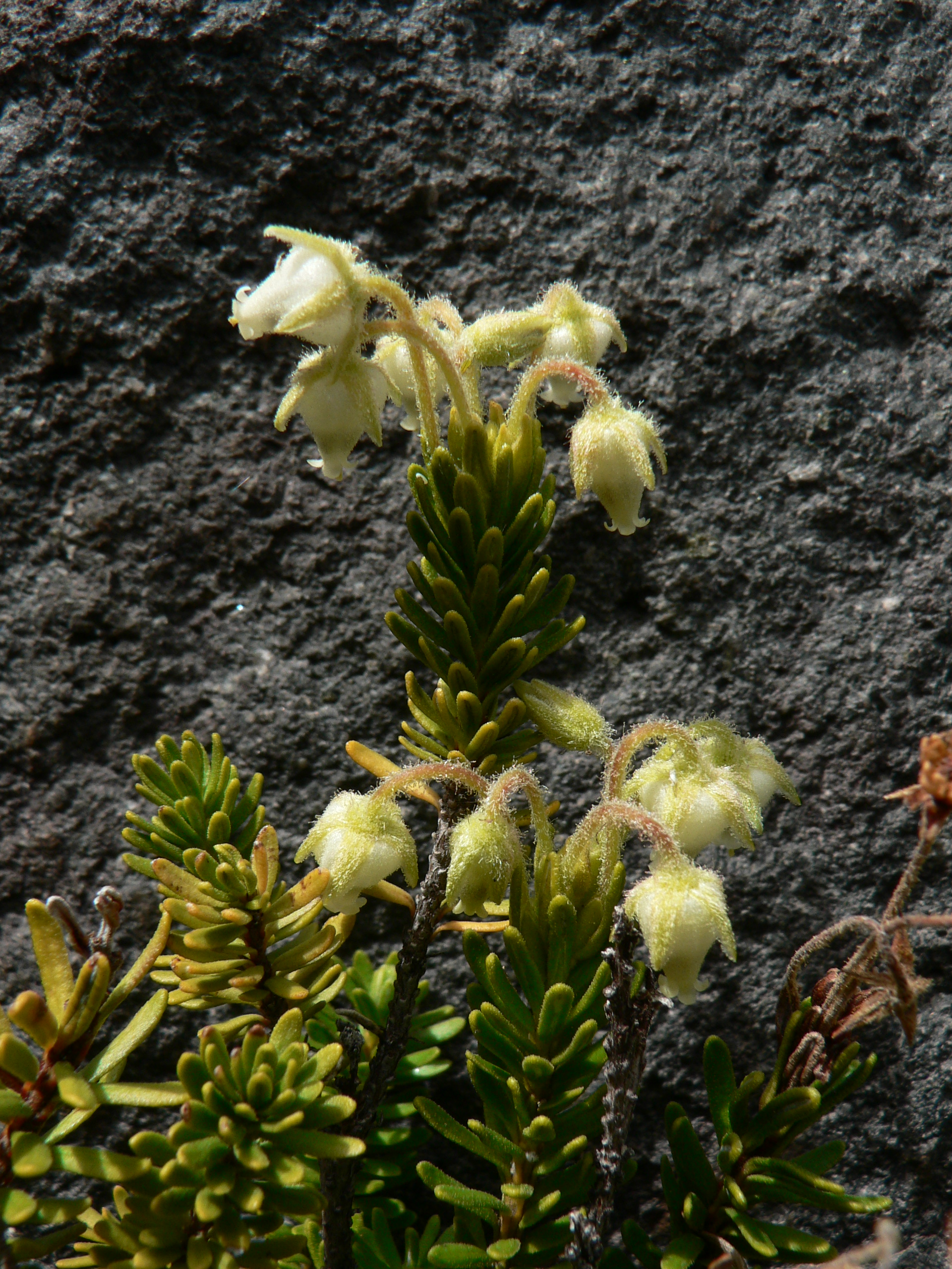 Yellow Mountainheath